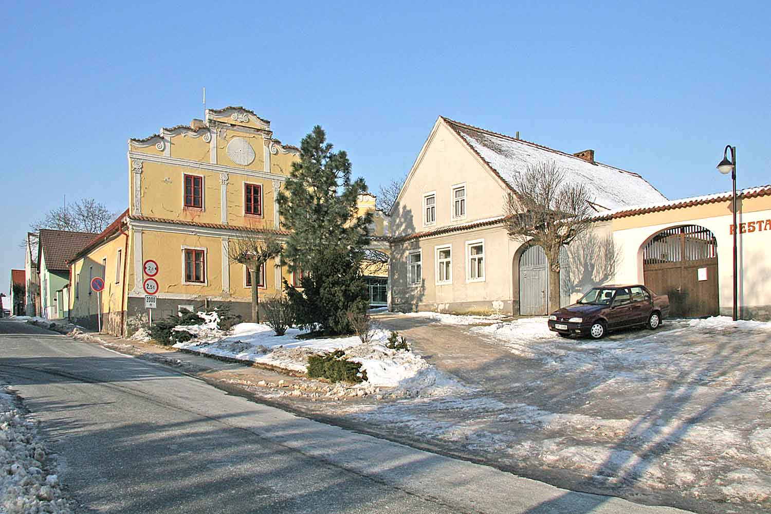 Houses in NW corner of town square in Sezemice, Pardubice District, Czech Republic.